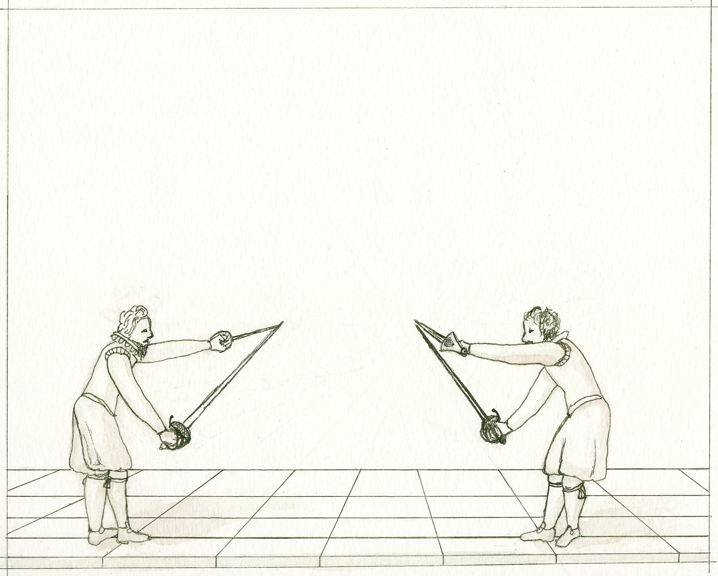 This is a modern illustration of the "true guard" for fencing with a rapier and dagger as described by Joseph Swetnam in his 1617 fencing treatise.